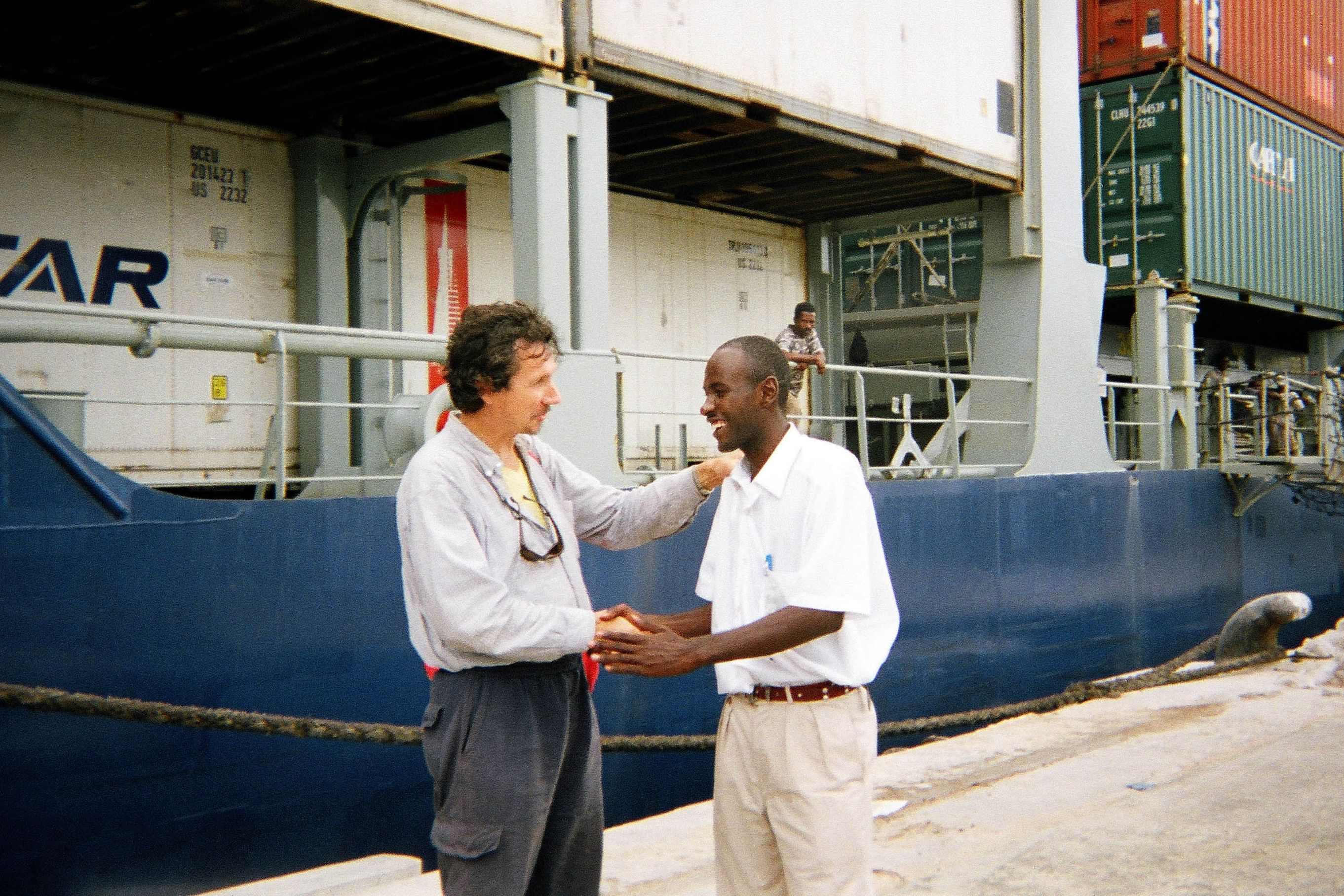 Composer Eric Pénicaud during a stopover of the cargo boat in which he travels